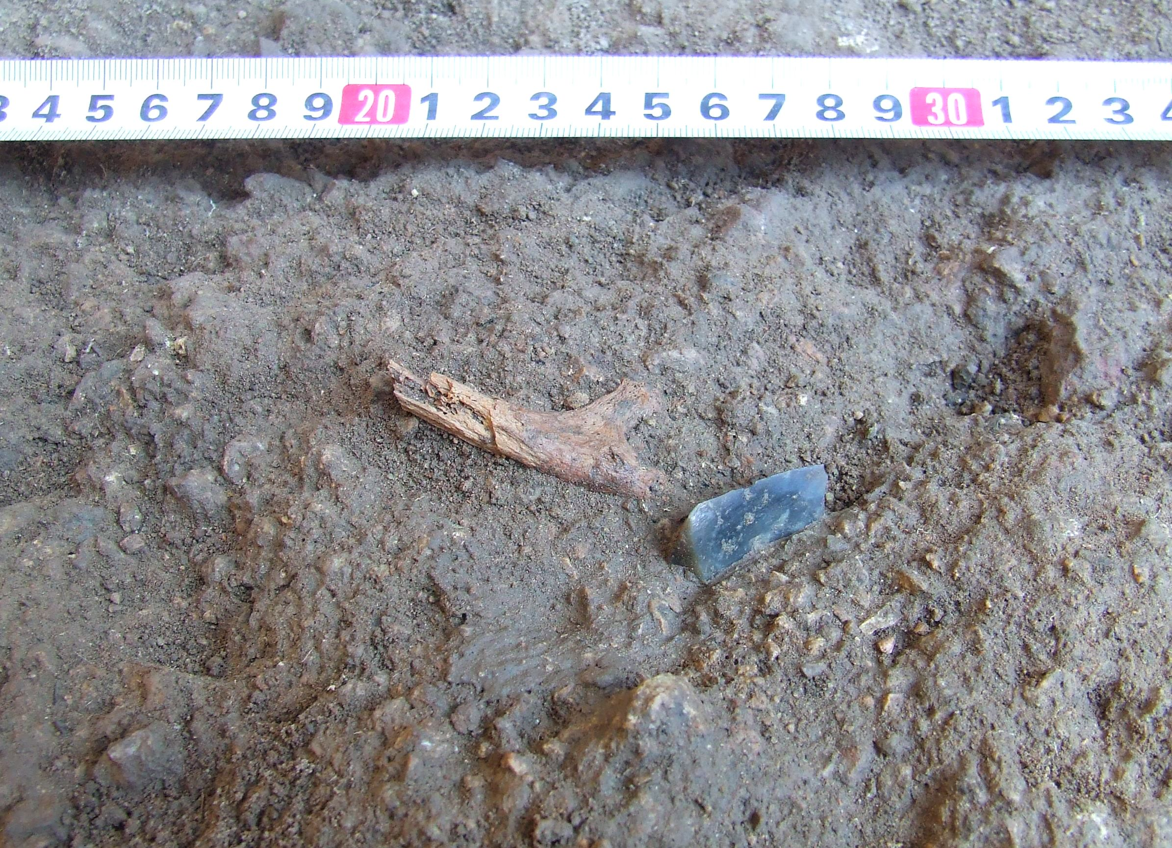 The findings of excavations of Upper Paleolithic layer at settlement Buran-Kaya - a fragment of bone and remains of a tool. Excavations of Upper Paleolithic archeological layer (Gravettian cultural tradition - Cro-Magnons) at the shelter-cave site of Buran-Kaya in Bilohirsk Raion in Crimea carried out by conjoint team of Ukrainian and French archeologists in the summer of year of 2013. Ukrainian part of team was headed by Alexander Yanevich from Institute of Archeology (of National Academy of Sciences of Ukraine) who had revealed the caves of Buran-Kaya in 1991 and had also participated in the direction of the excavations of this site since their re-opening in the year of 2009. The excavations in the site have enabled the discovering of the oldest remains of Anatomically Modern Humans (AMHs) from the extreme southeast Europe (dated by 31 900 + 240/-220 years B.C.) in conjunction with their associated cultural and paleoecological background – related human and faunal remains (with the oldest evidences of postmortem treatments of the dead by early modern humans in Europe), numeric lithic artefacts (including tools) and body ornaments from mammoth ivory securely attributed to Gravettian culture